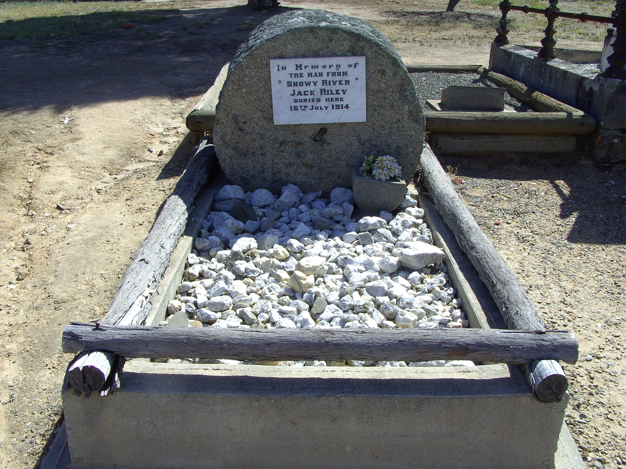 Grave of Jack Riley, reputedly the model bushman for Banjo Paterson's "Man from Snowy River", born en:1841 in Ireland, died en:14 July en:1914 near "Tom Groggin" (location, near Khancoban, New South Wales) on the Murray River, buried 16 July 1914 at Corryong, Victoria.